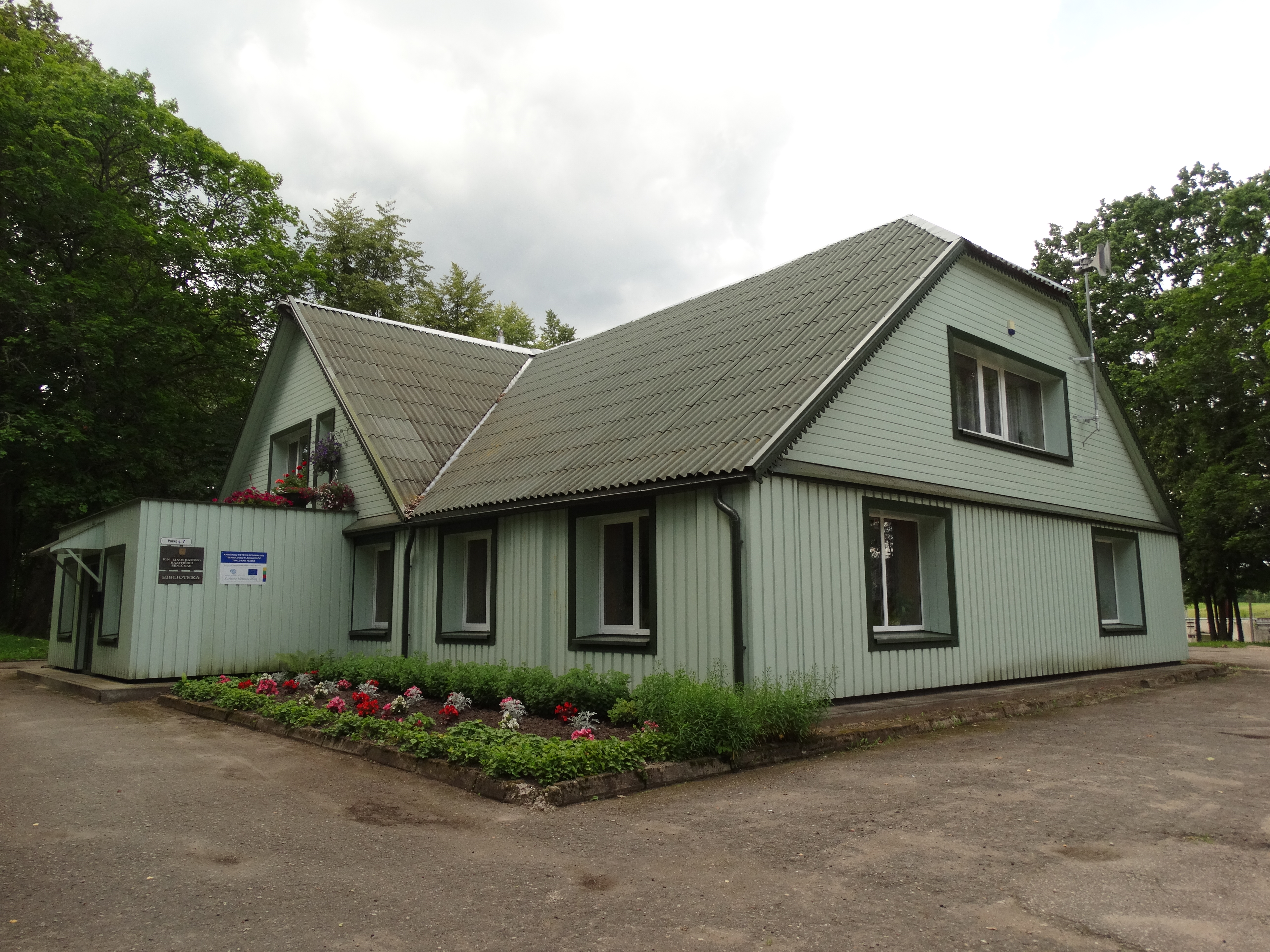 Eldership in Kazitiškis, Ignalina district, Lithuania